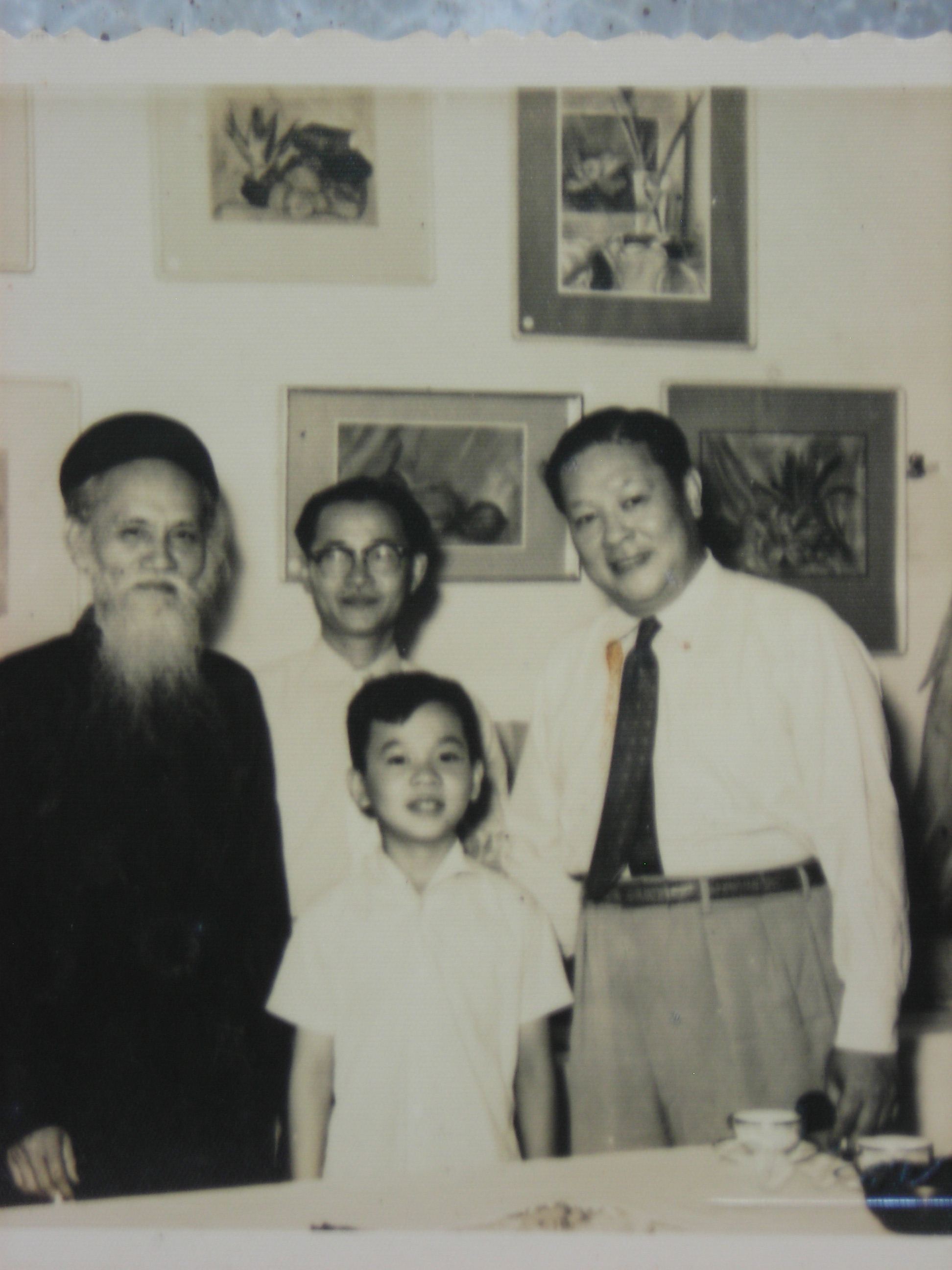 Photo at Tu Duyen's house in Saigon, around 1960, is a souvenir between a famous poet and painters (Photo taken by Vietcuongdao from DSChu's family collection.